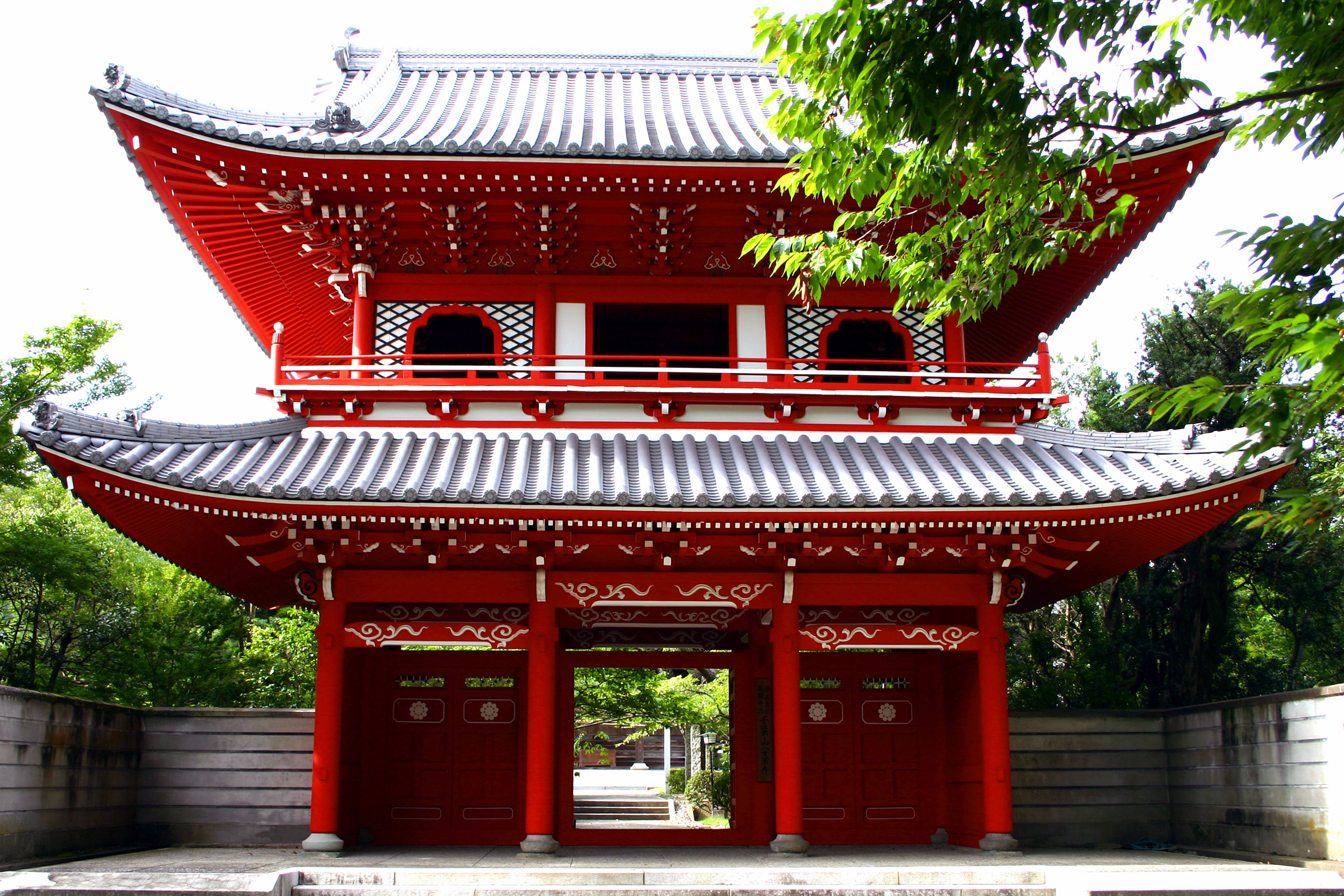 front gate of the Anraku Tempel in Mima-shi, Tokushima-ken